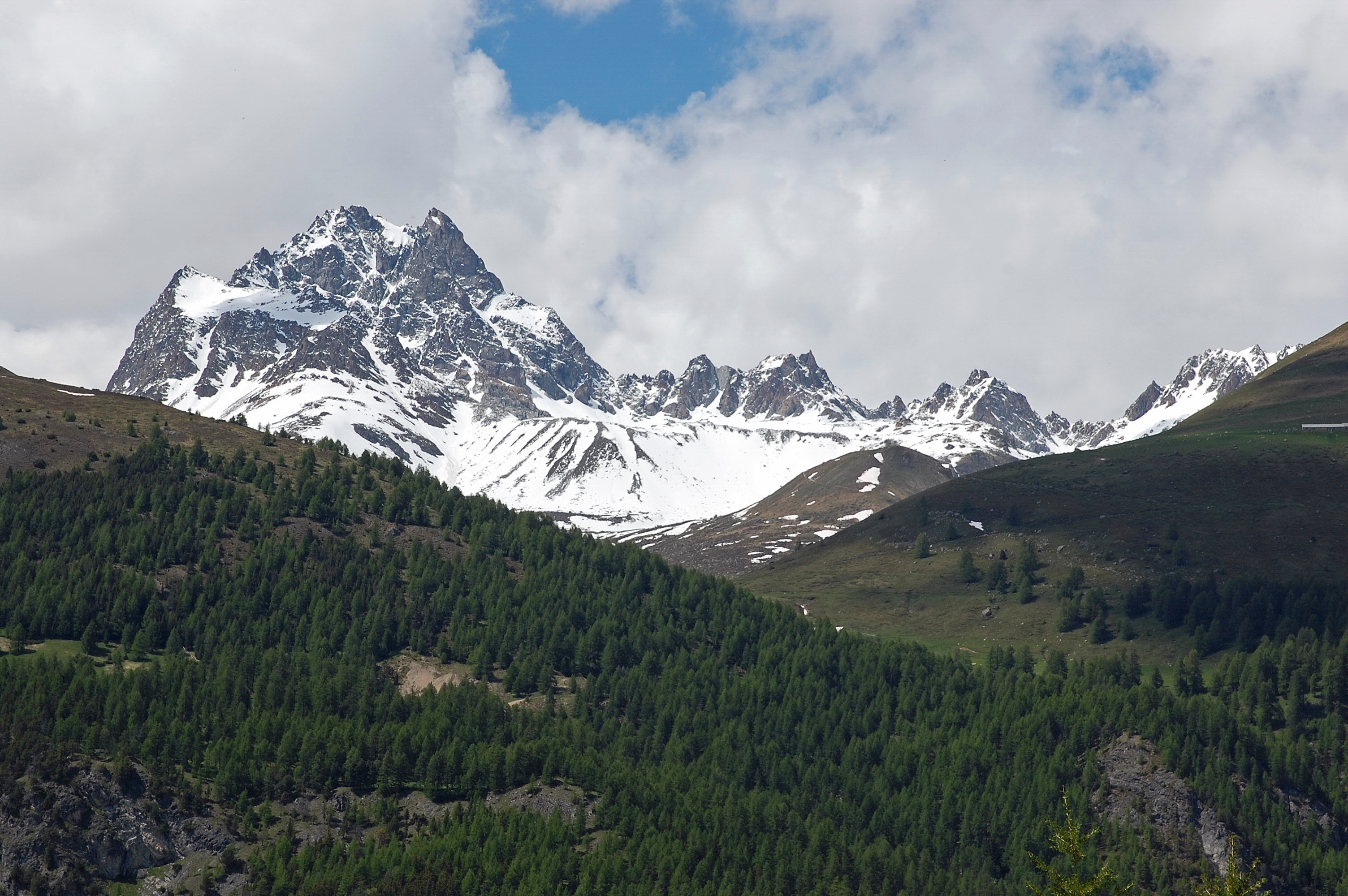 Piz Kesch from south-east, near Madulain